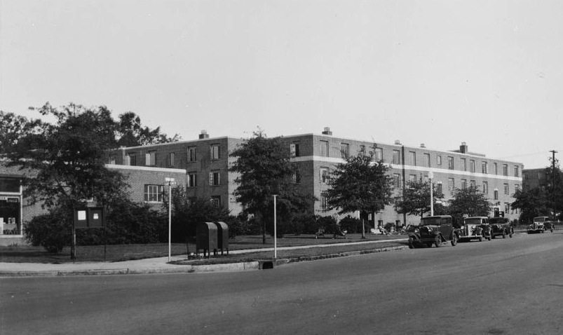 Techwood Homes, Atlanta, Georgia, late 1930s